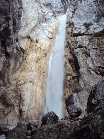 Oten valley waterfall